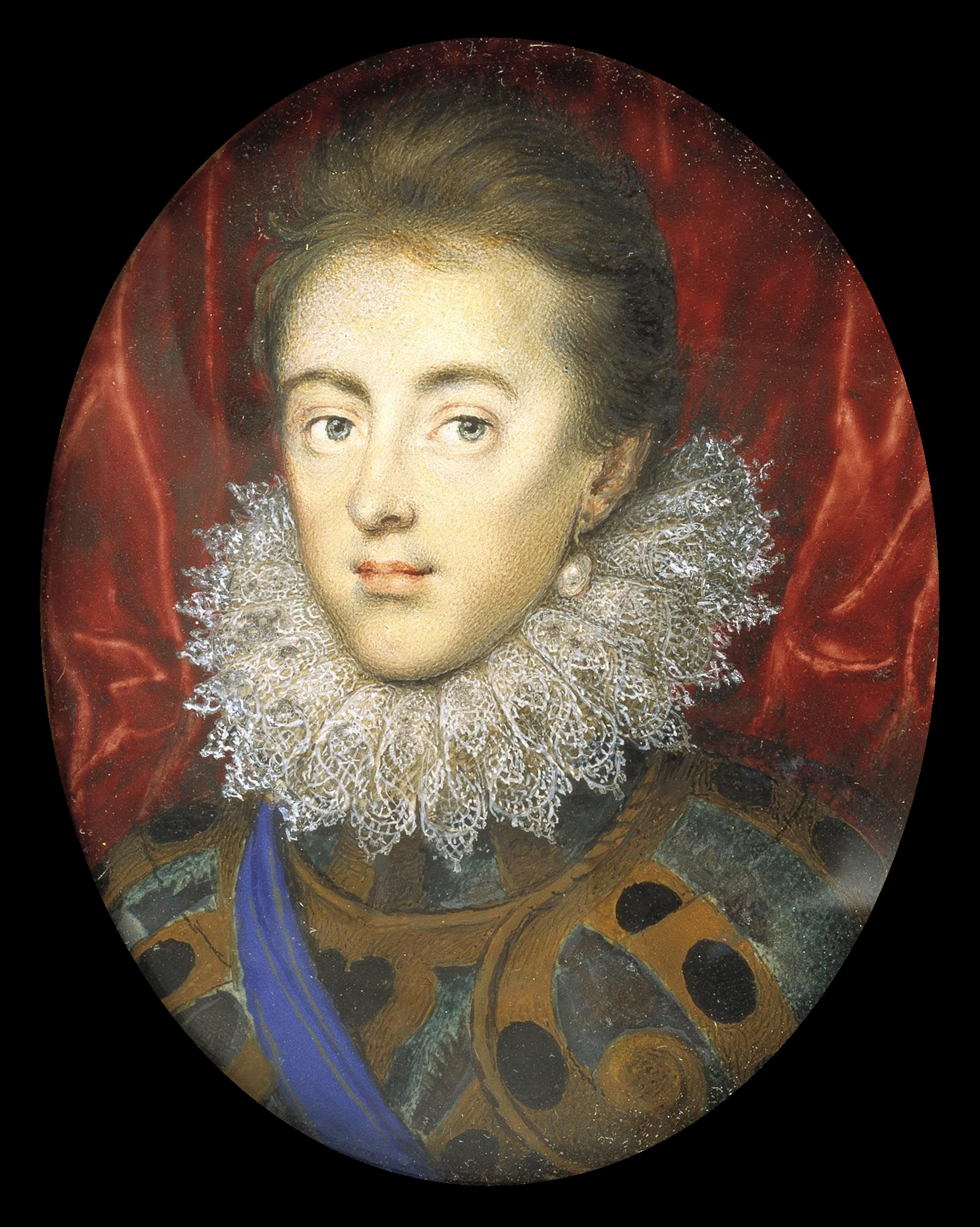 (later Charles I)